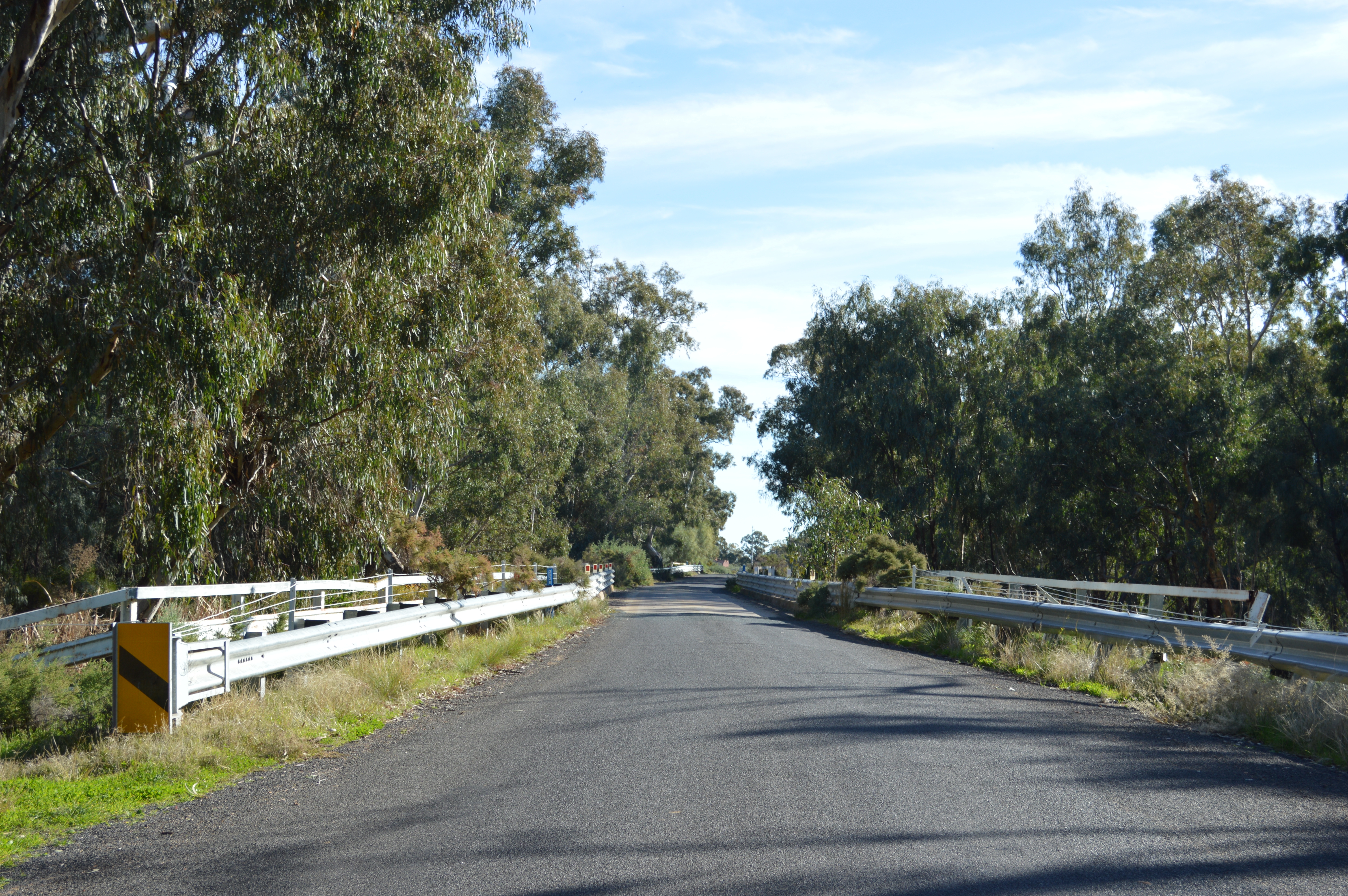 Bridge over the Lachlan River at Oxley, New South Wales